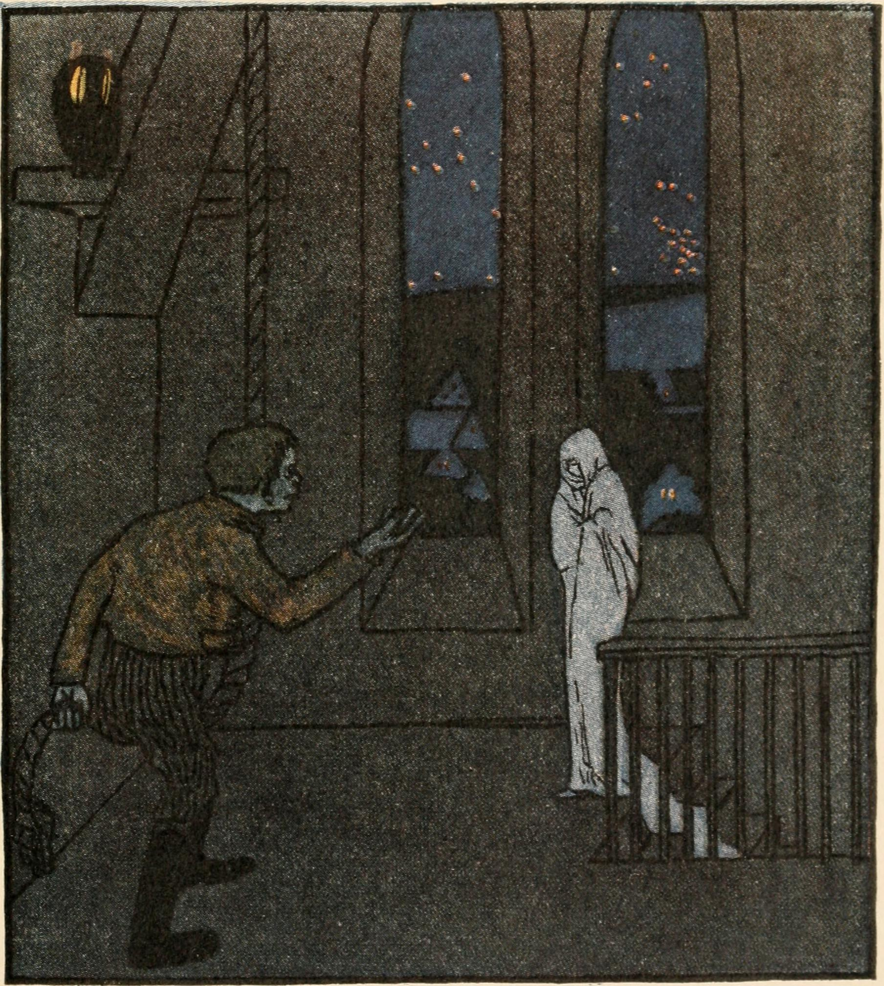 Title: Kinder- und Year: 1910 (1910s) Authors: Grimm, Jacob, 1785-1863 Grimm, Wilhelm, 1786-1859 Weisgerber, Albert, 1878-1915, ill Subjects: Fairy tales Folklore -- Germany Publisher: Wien : M. Gerlach Text Appearing Before Image: 28 Text Appearing After Image: 2a nun ge(d)al) es, öajs öer Dater einmal 3U if)m jprad): „?)öx*bu in ber (Ede boxt, öu roirft groß unö \taxt, bu mujst aud) ettoaslernen, roomit öu öein Brot üeröienjt. $iet)(t öu, toie öein Bruöerfid)inüf)e gibt, aber an öir ifti)opfenunöliTal3DerIoren. — „(Ei,Dater, antroortete er, „id) roill gerne roas lernen; ja, roenns an=gienge, jo möd)te id) lernen, öafs mirs grujelte; öaüon cerftel^e id)nod) gar nid)ts. Der ältejte ladjte, als er öas I)örte unö öad)te bei(id): „Du lieber (Bott, röas ijt mein Bruöer ein Dummbart, aus öemroirö (ein £ebtag nid)ts; roas ein ?)äl(i)en roeröen roill, mujs jid) bei=3eiten!rümmen. DerDater(euf3teunö antworteteil)m: „Das (Brujeln,öas (olljt öu jd)on lernen, aber öein Brot roirjt öu öamit nid)t Der=öienen/^::^:/:::.:::. :.:.::::::::::✌️:::::::::^^^^^^^^^^^^^ ::: Batö banaä) tarn öer Küfter 3um Be(ud) ins f)aus, öa Hagteil)m öer Dater (eine Hott) unö er3äf)lte, roie (ein jüng(ter $ot)n in all